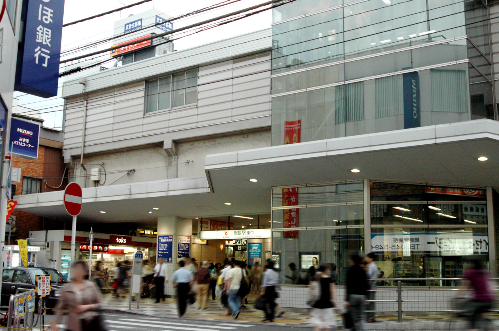 Tsunashima Station, Tokyu Toyoko Line, Yokohama, Japan